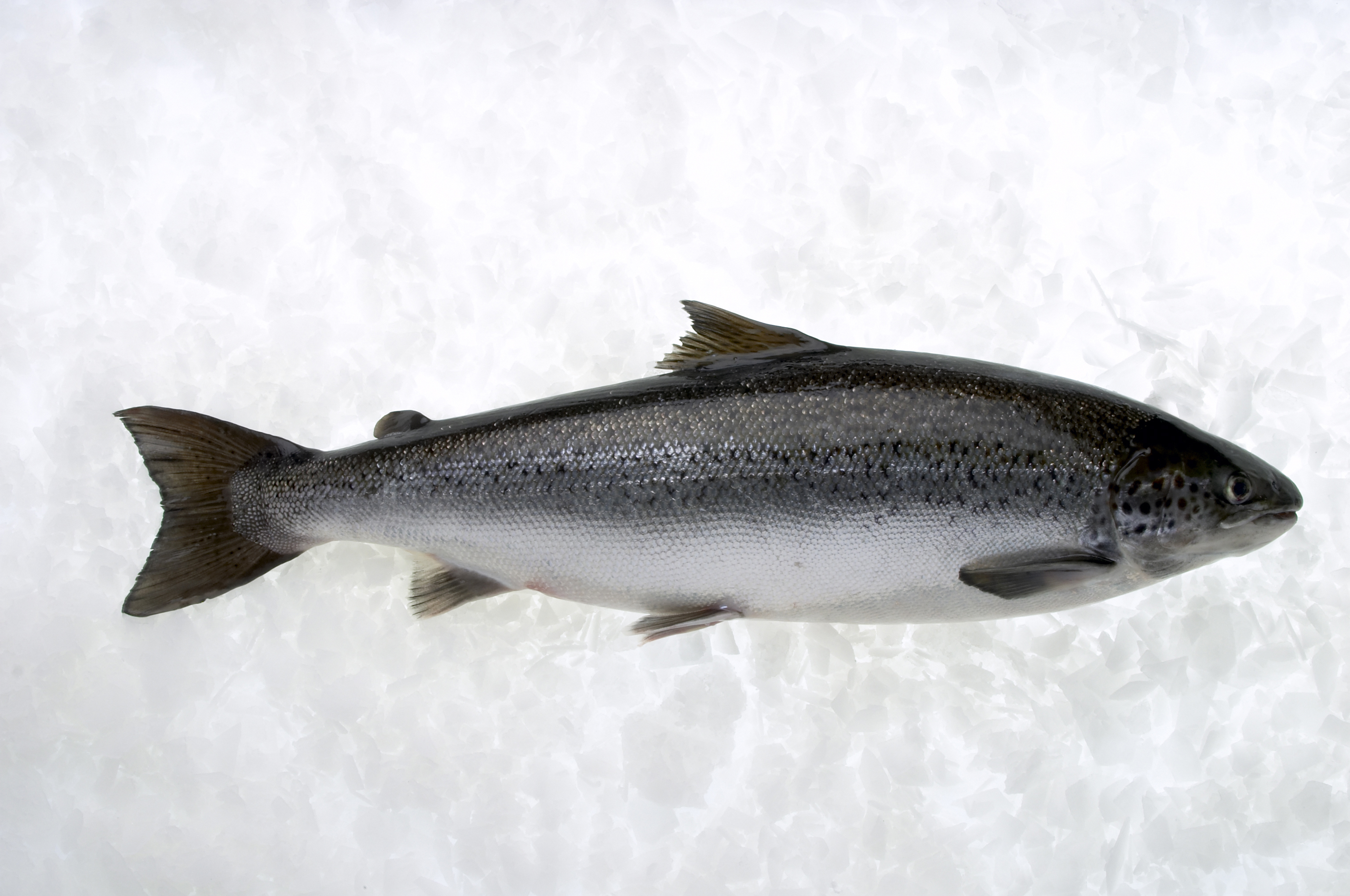 Atlantic salmon